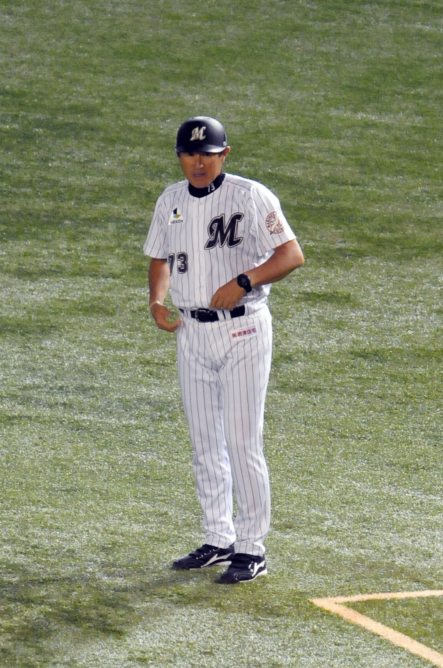 Masafumi Yamamori, coach of the Chiba Lotte Marines, at Chiba Marine Stadium.